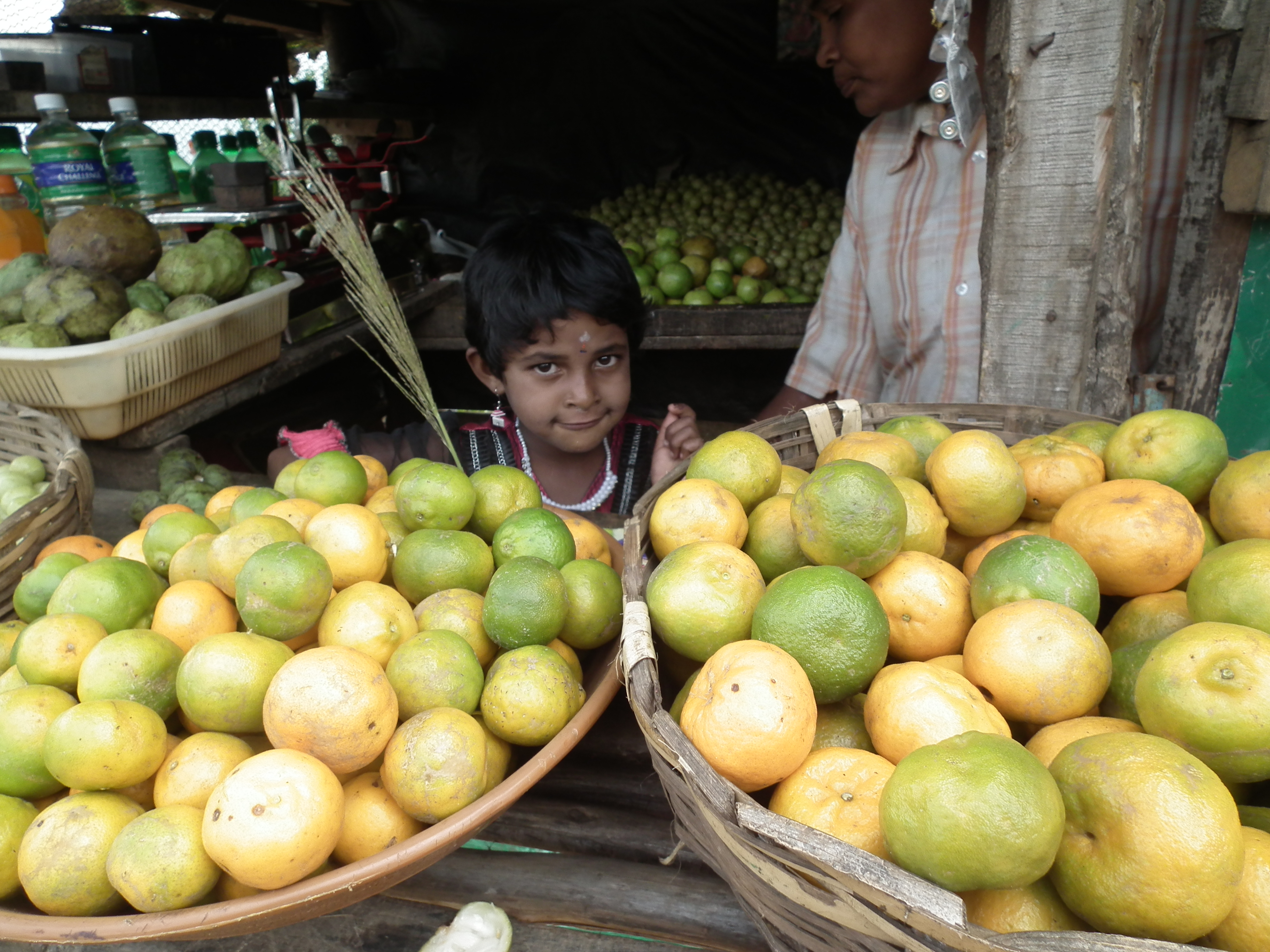 orange is for sale in a small road side shop in Kanthalloor